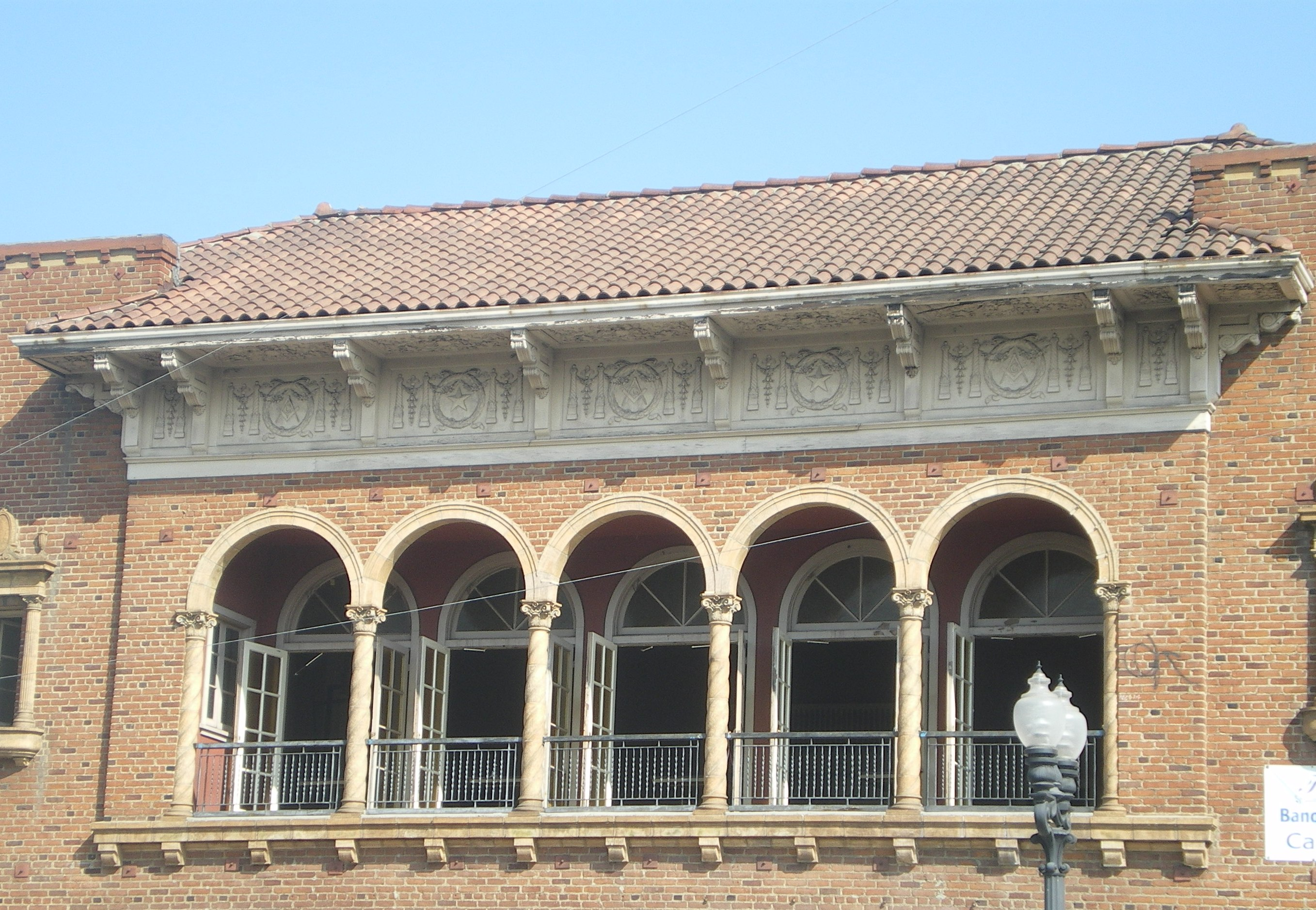 Highland Park Masonic Temple, Figueroa Street Facade — arcade balcony. 104 N. Avenue 56, the Highland Park district, Northeast Los Angeles, Southern California.